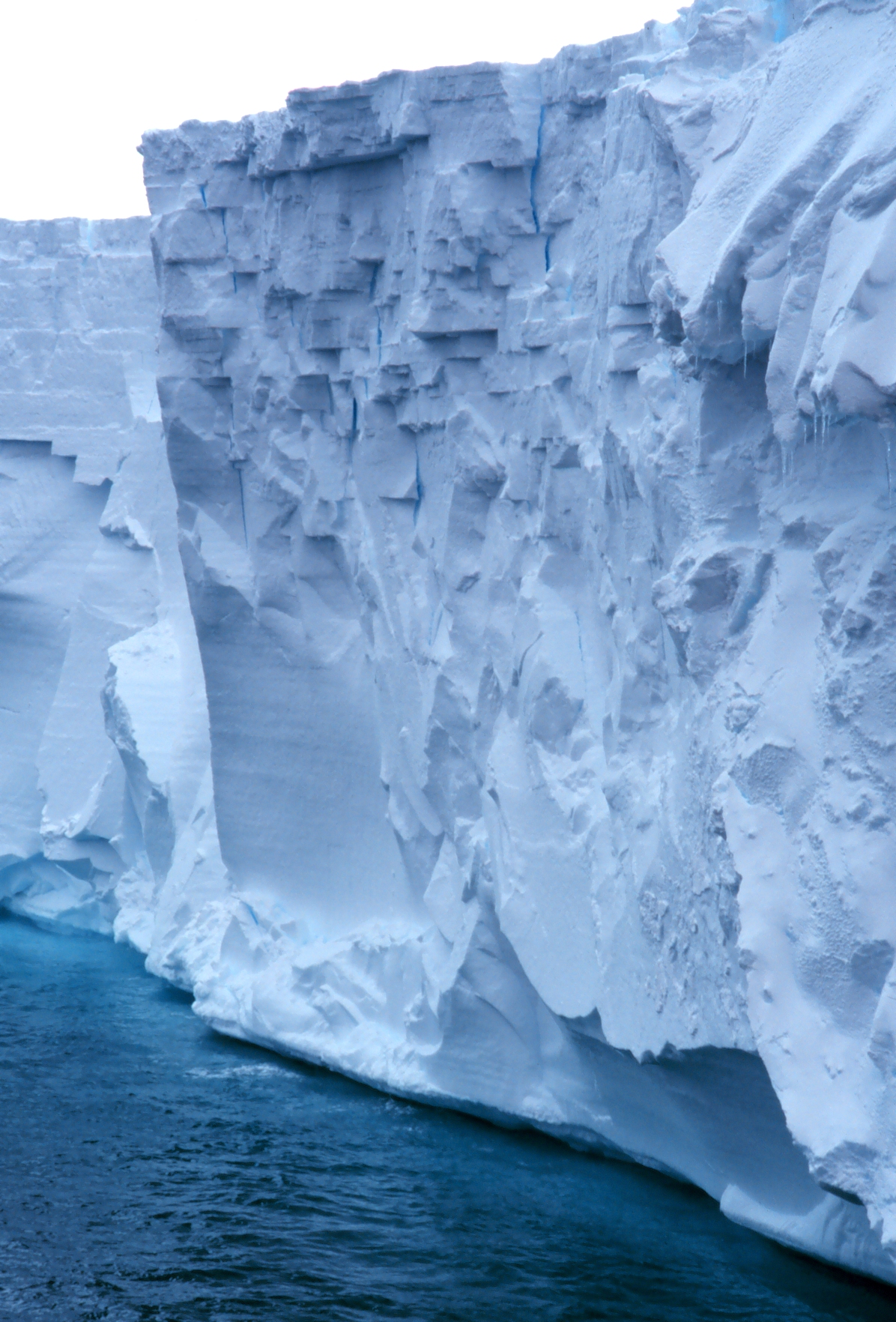 Edge of the Ross Ice Shelf as seen by the NATHANIEL B. PALMER. 1997 December.